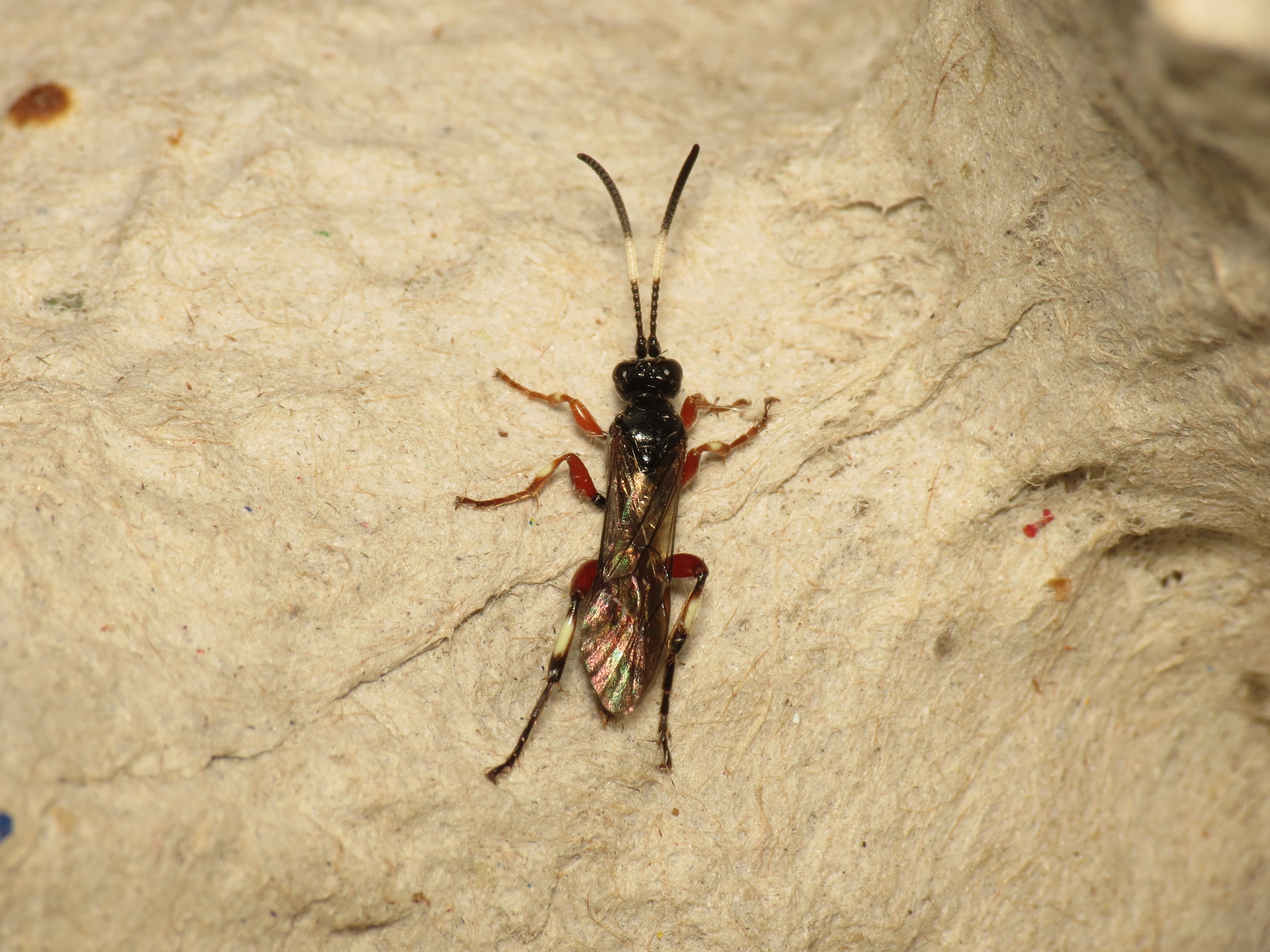 Cratichneumon flavifrons (Schrank 1781), to Robinson trap, Søborg, Denmark, 8/9 August 2013